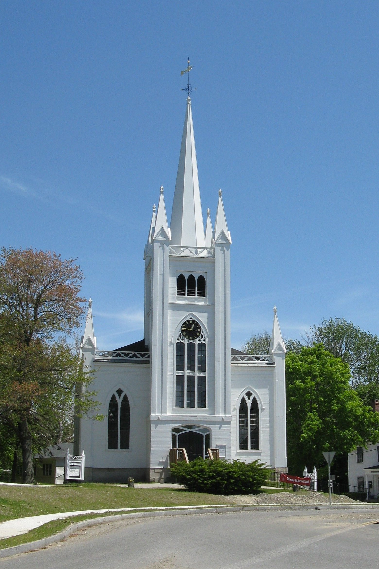 North Andover Center Historic District, North Andover Massachusetts